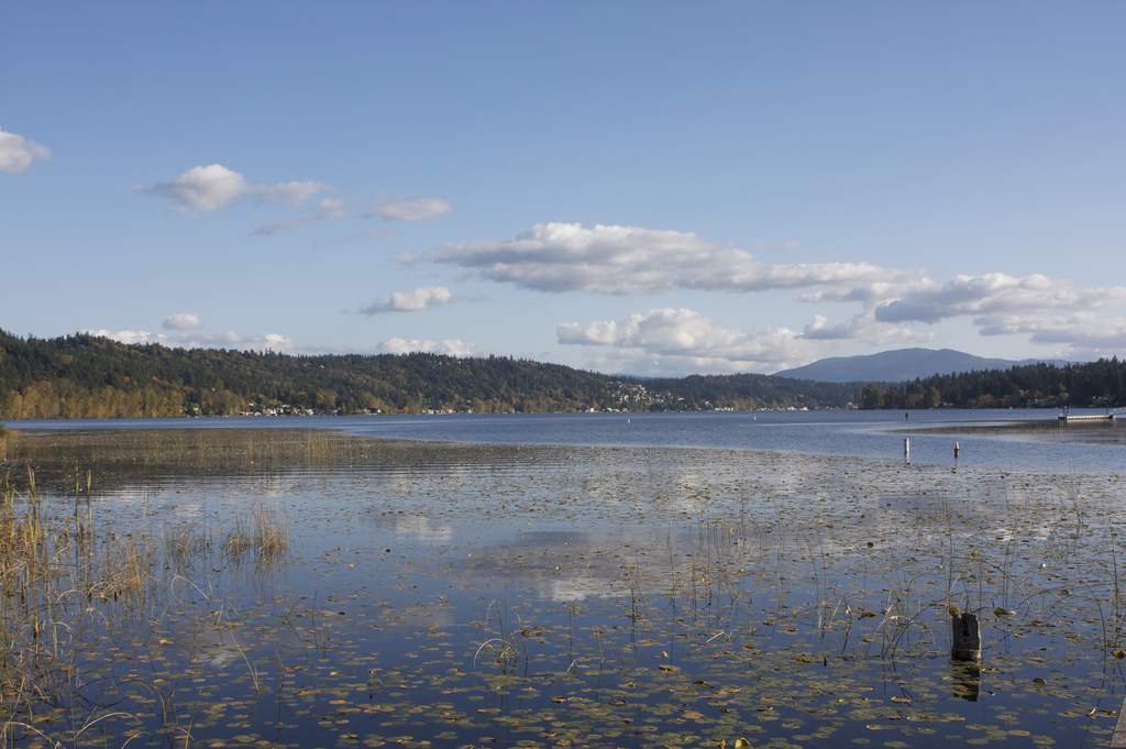 View across Lake Sammamish, from Marymoor Park. Looking south.